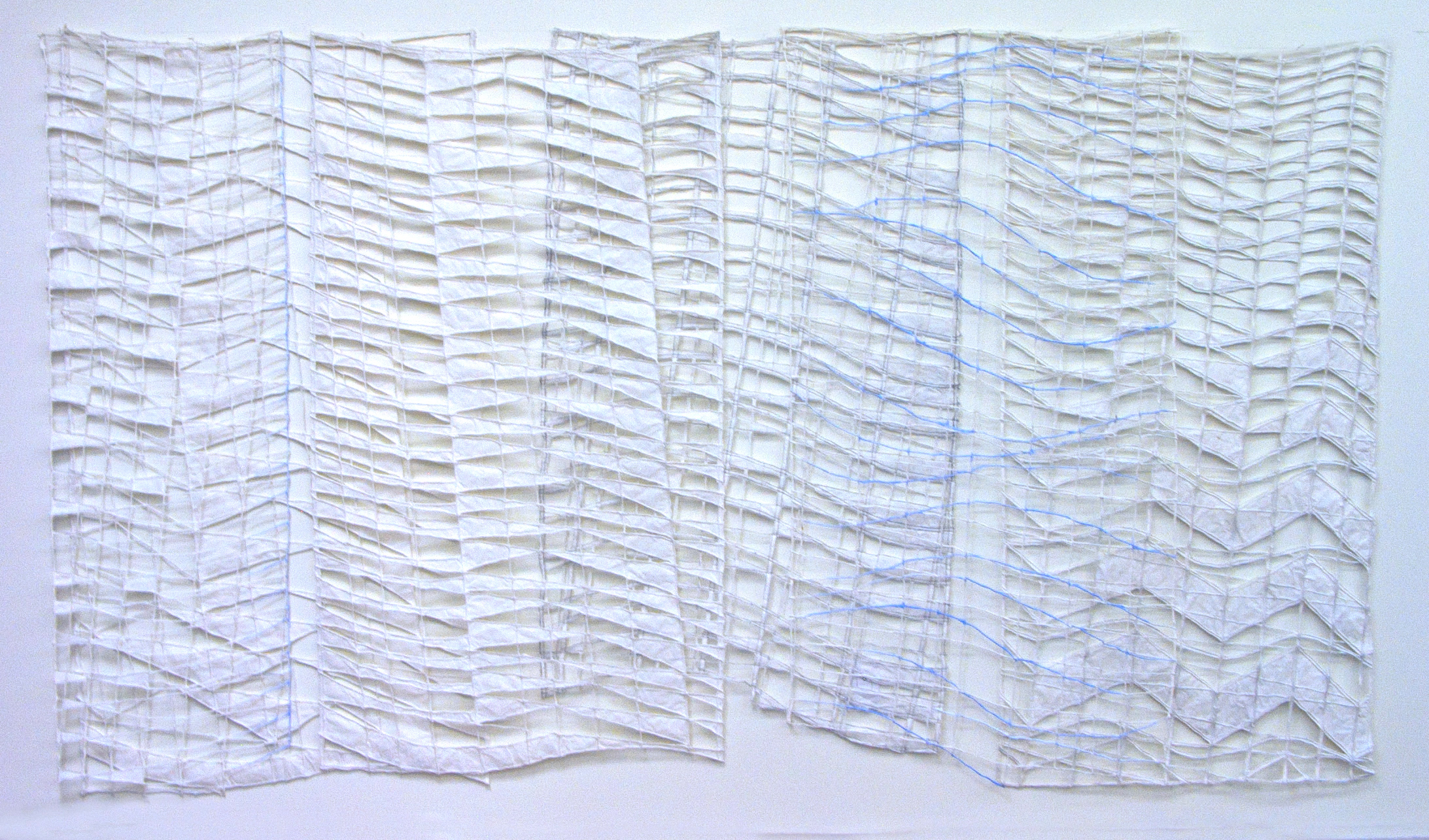 Acrylic and graphite on cut mulberry paper. 68 by 115 inches (six panels)